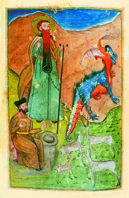 A miniature from the Georgian manuscript book The Lives of Saints depicting St. David of Gareja and his disciple Lukiane.